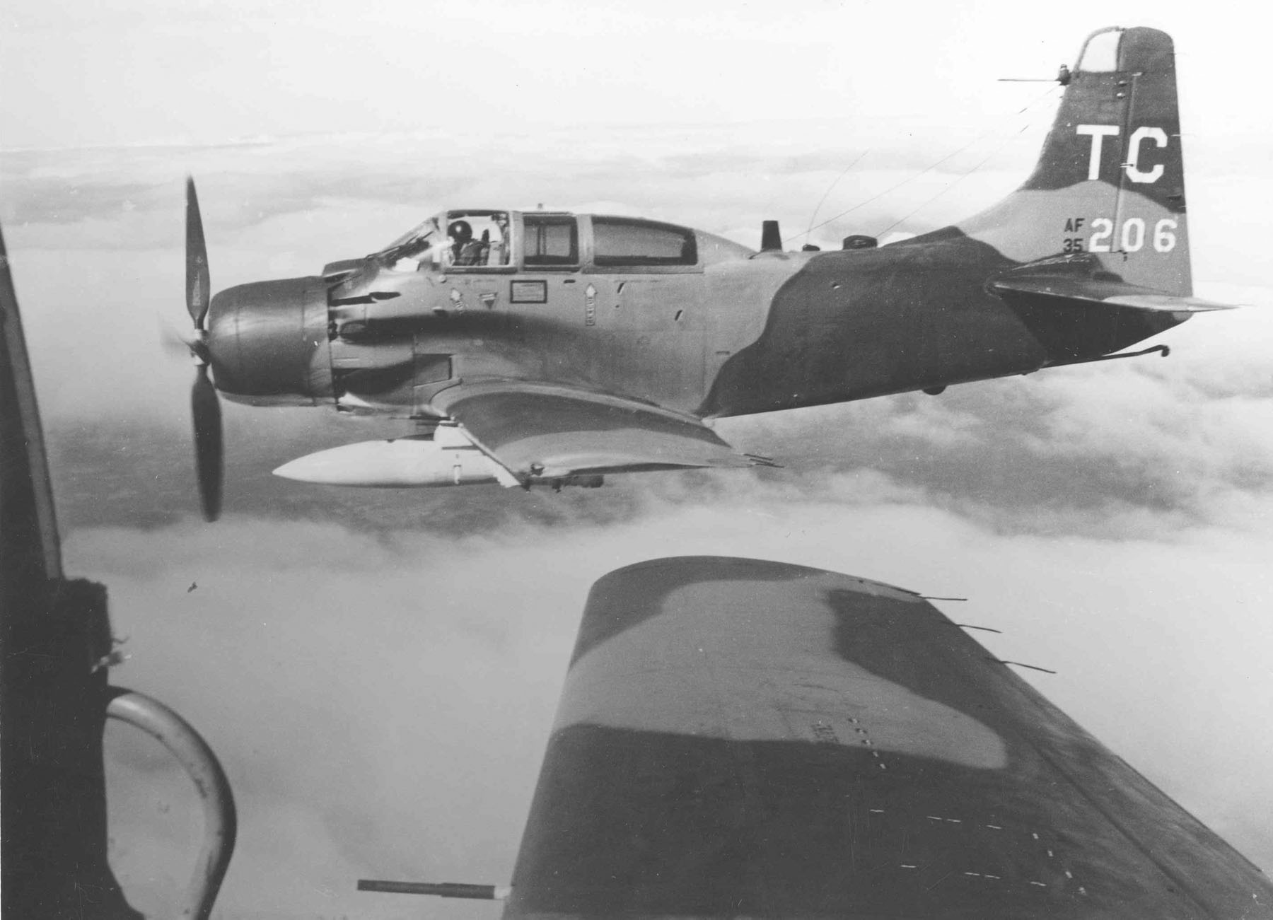 A U.S. Air Force Douglas A-1E (s/n 52-135206) from the 1st Special Operations Squadron, 56th Special Operations Wing, in flight, circa in the late 1960s. This aircraft was a former U.S. Navy EA-1E (before 1962: AD-5W) radar warning aircraft (BuNo 135206) that was converted to an attack plane. It was later transferred to the South Vietnamese Air Force.